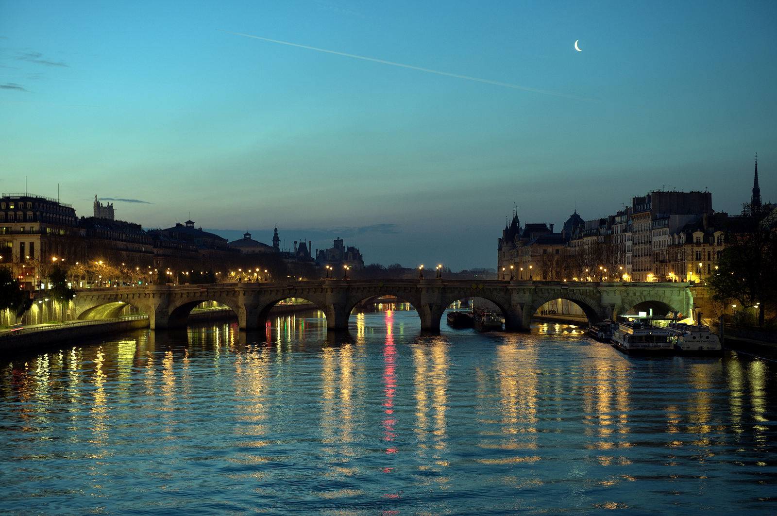 The Île de la Cité view from The Pont des Arts. The Île de la Cité is one of two natural islands in the Seine within the city of Paris (the other being Île Saint-Louis, the Île aux Cygnes being artificial). It is the centre of Paris and the location where the medieval city was refounded